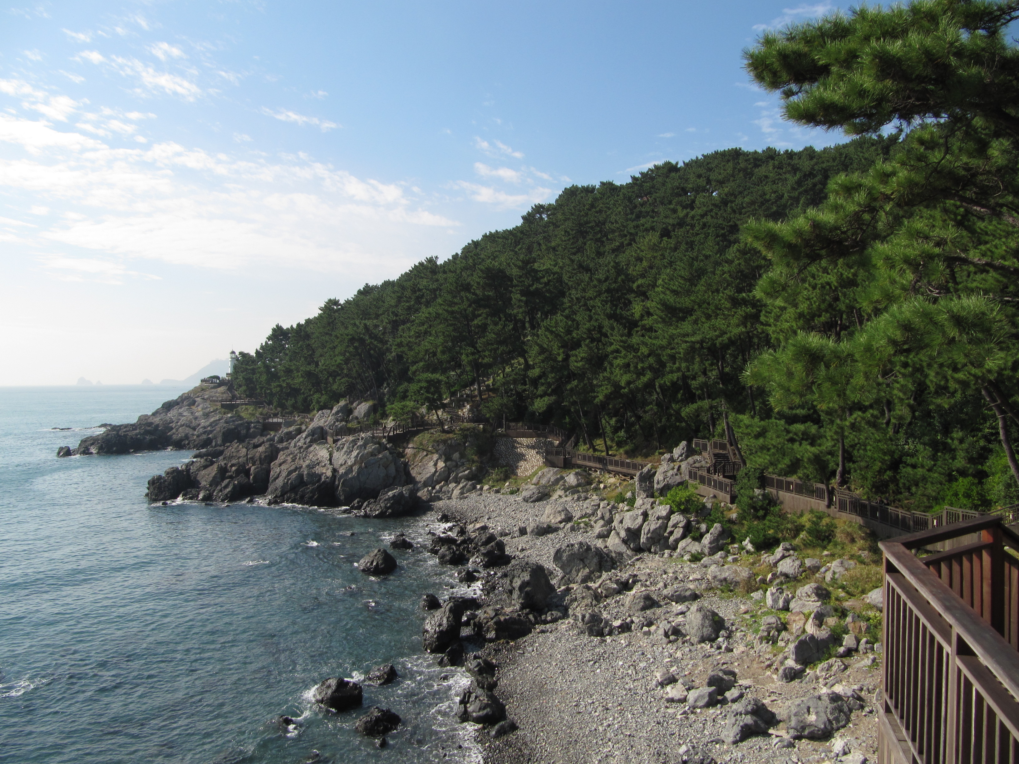 Dongbaek Island